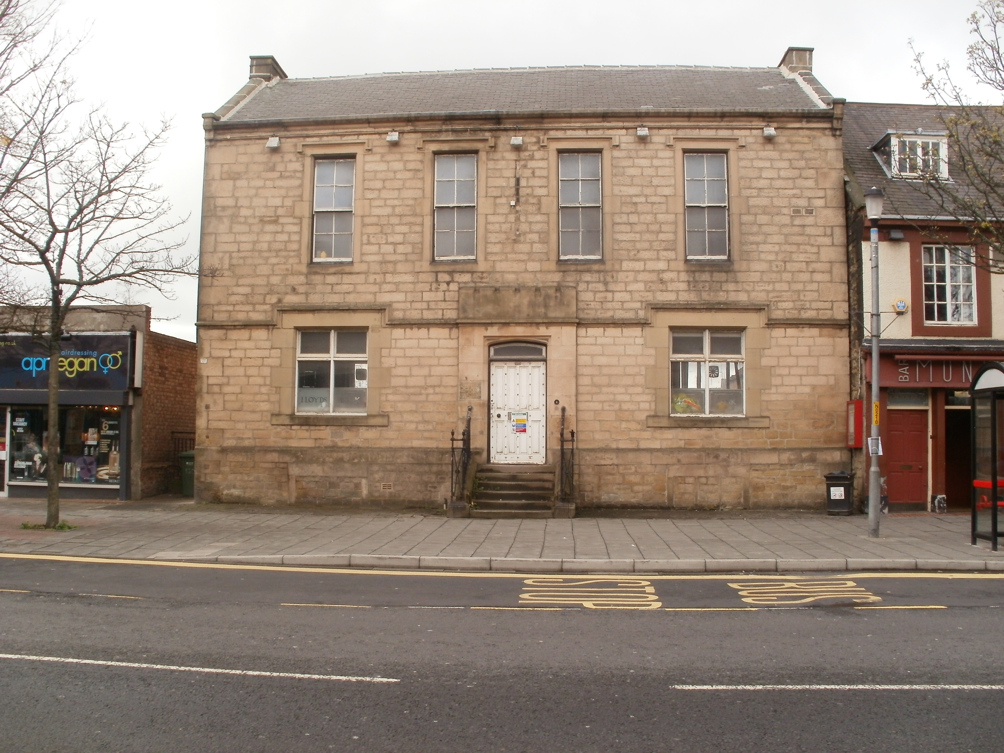 The Literary Rooms were opened in November 1841 by Thomas Wilson, a poet of considerable repute in Gateshead. Used first as a place of learning by local residents, the Literary Rooms were abandoned by Lloyds Bank in the later 1990's and sadly remain unused.